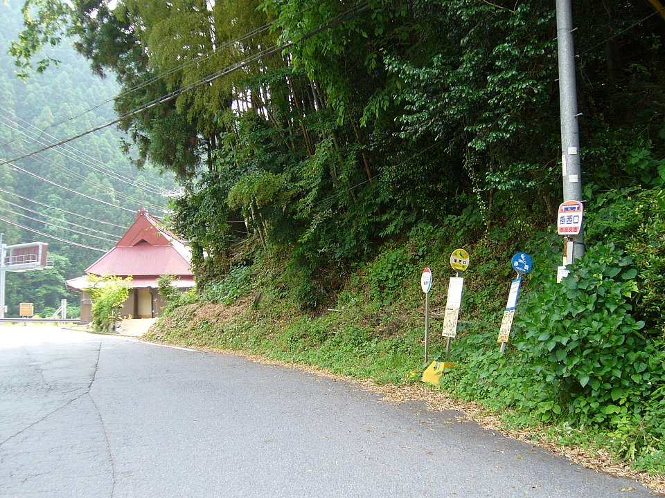 Kake Nishiguchi Bus Stop, Soko, Nara.